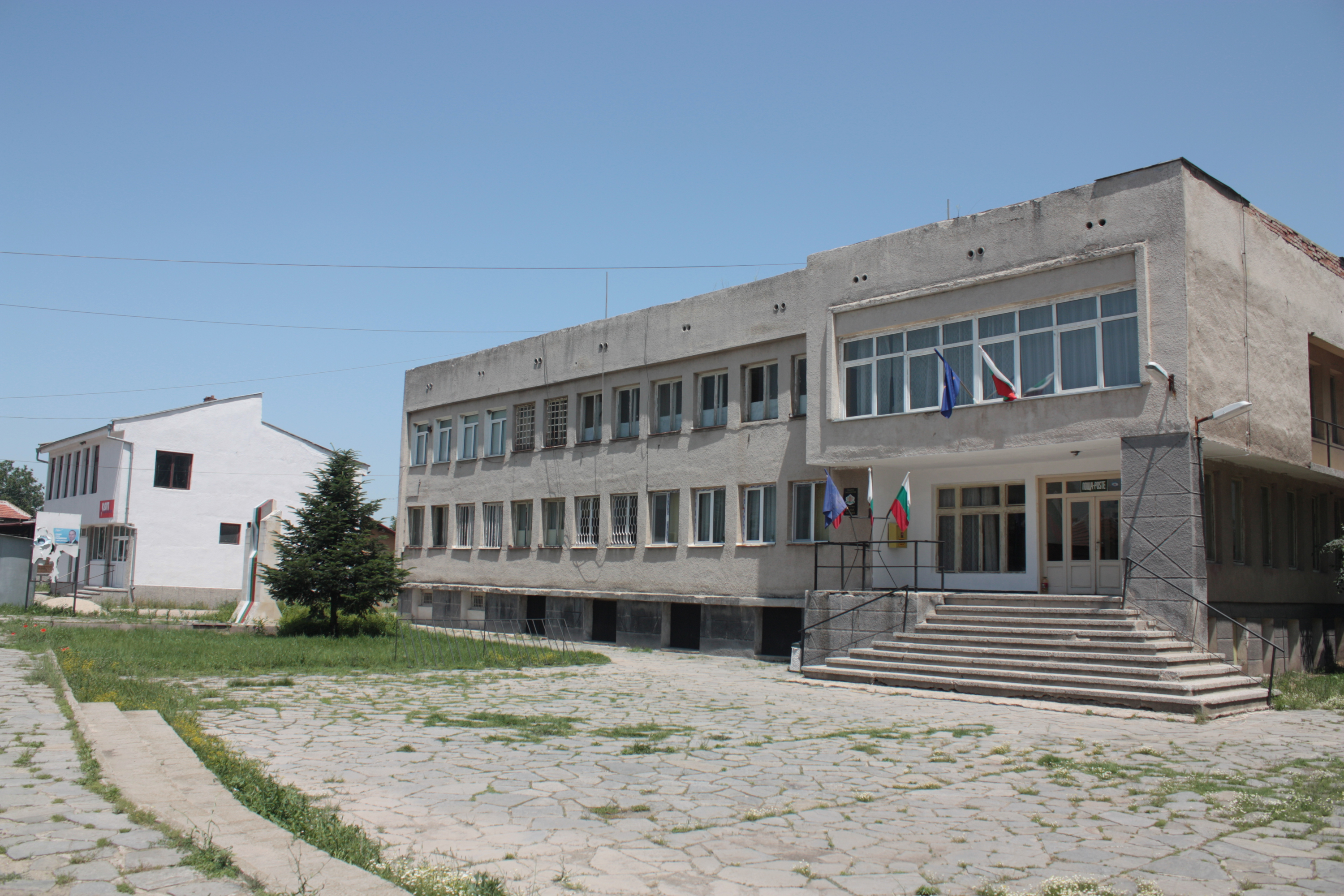 Malak Chardak municipality office (town hall), Bulgaria